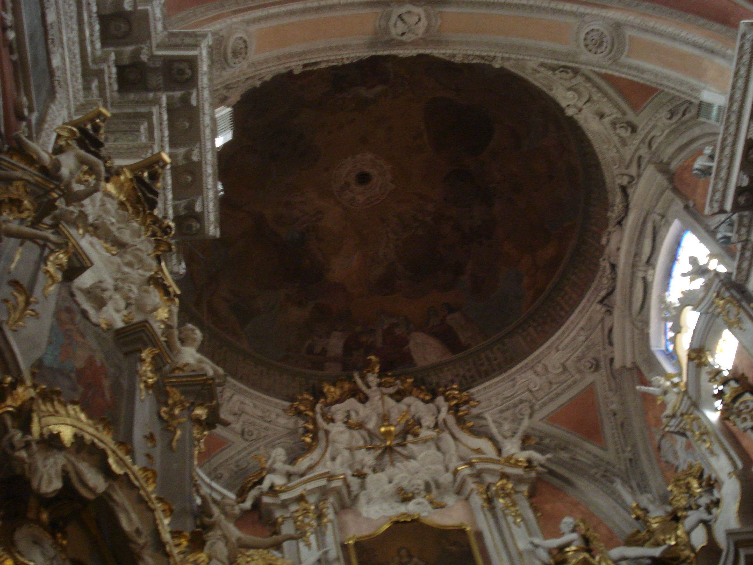 The cupola over the main altar in the Church of the St Teresa in Vilnius (Aušros Vartų g. 14)